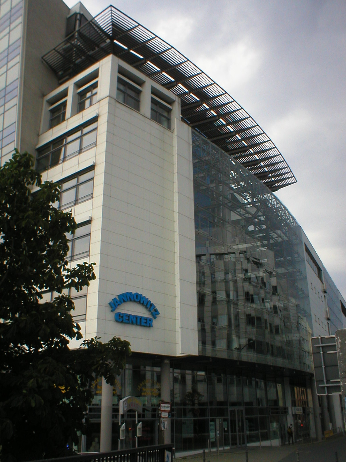 The shopping center "Jannowitzcenter" near the Jannowitzbrücke in Berlin